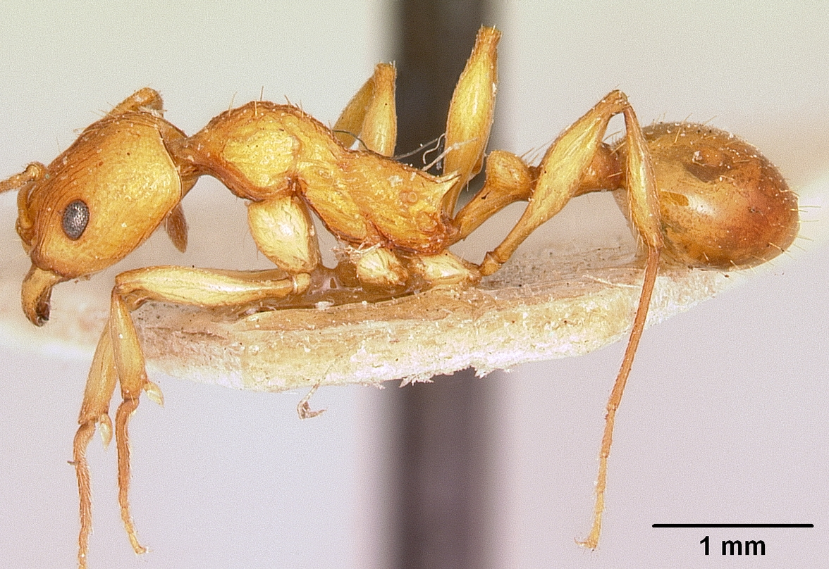 Profile view of ant Aphaenogaster belti specimen casent0101063.